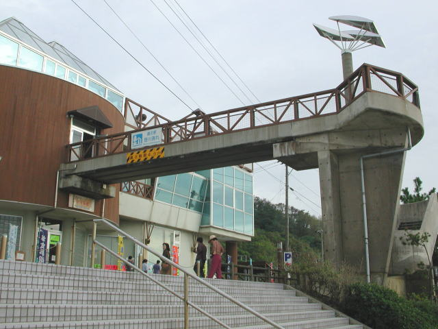 Kuwagawa Station, deck, Murakami, Niigata, Japan